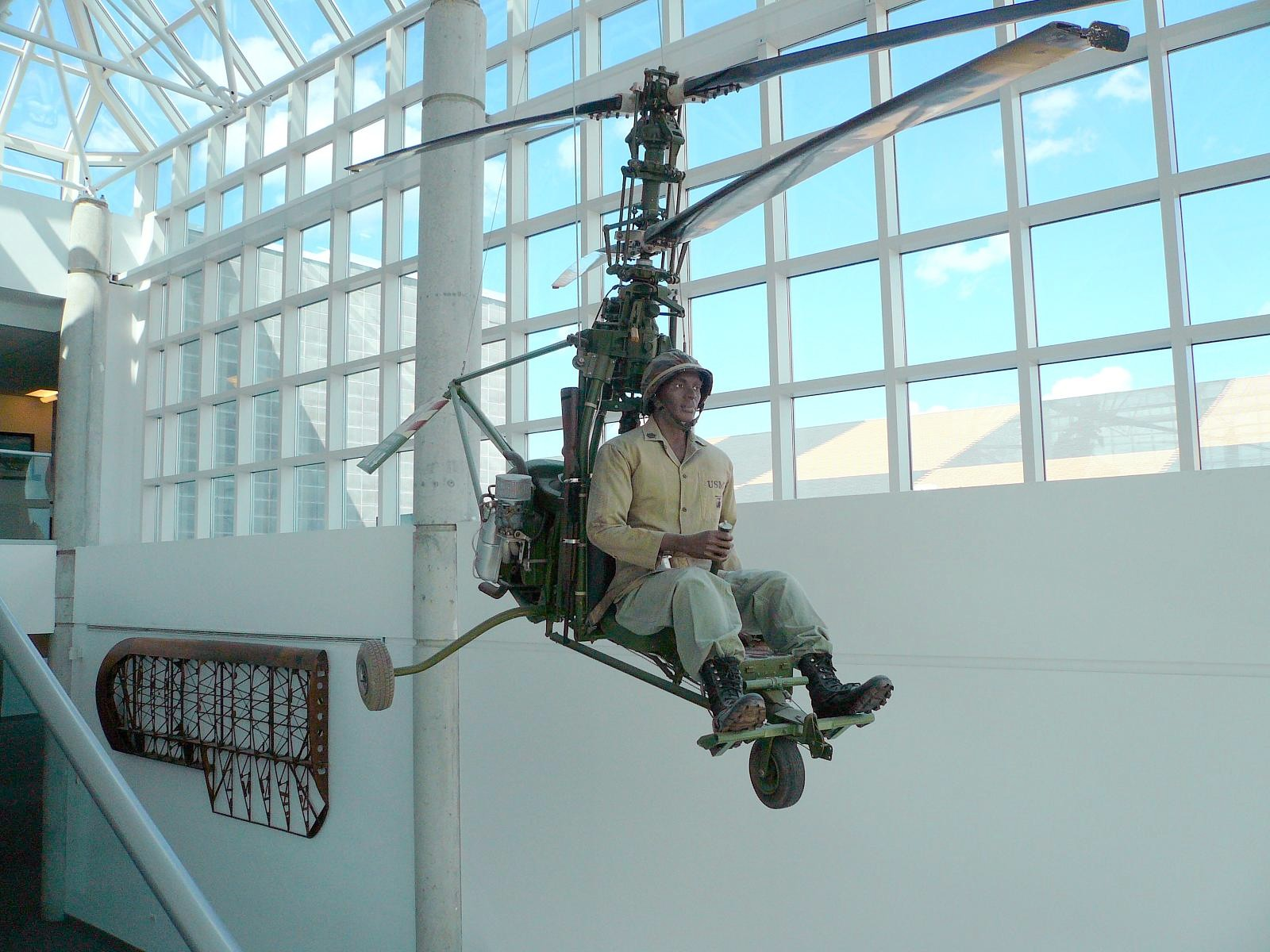 Gyrodyne XRON Rotocycle Cradle of Aviation Museum